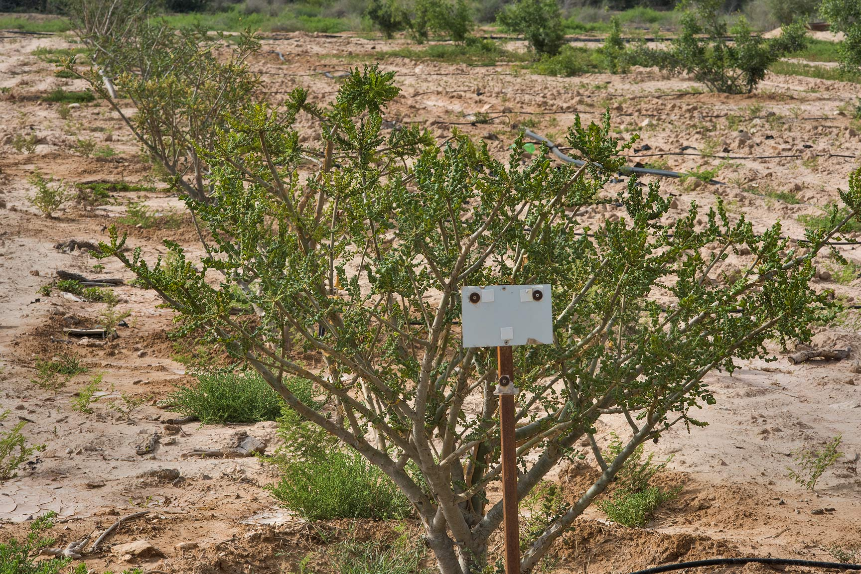 Inside view of a tree at Rawdat Al Faras Research Station in northern Qatar.